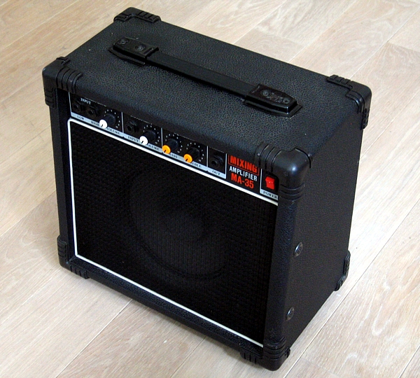 Mixing Amplifier MA-35